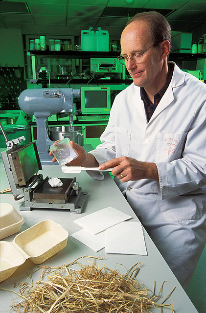 Plant physiologist Gregory Glenn prepares to make wheat-starch biodegradable containers.